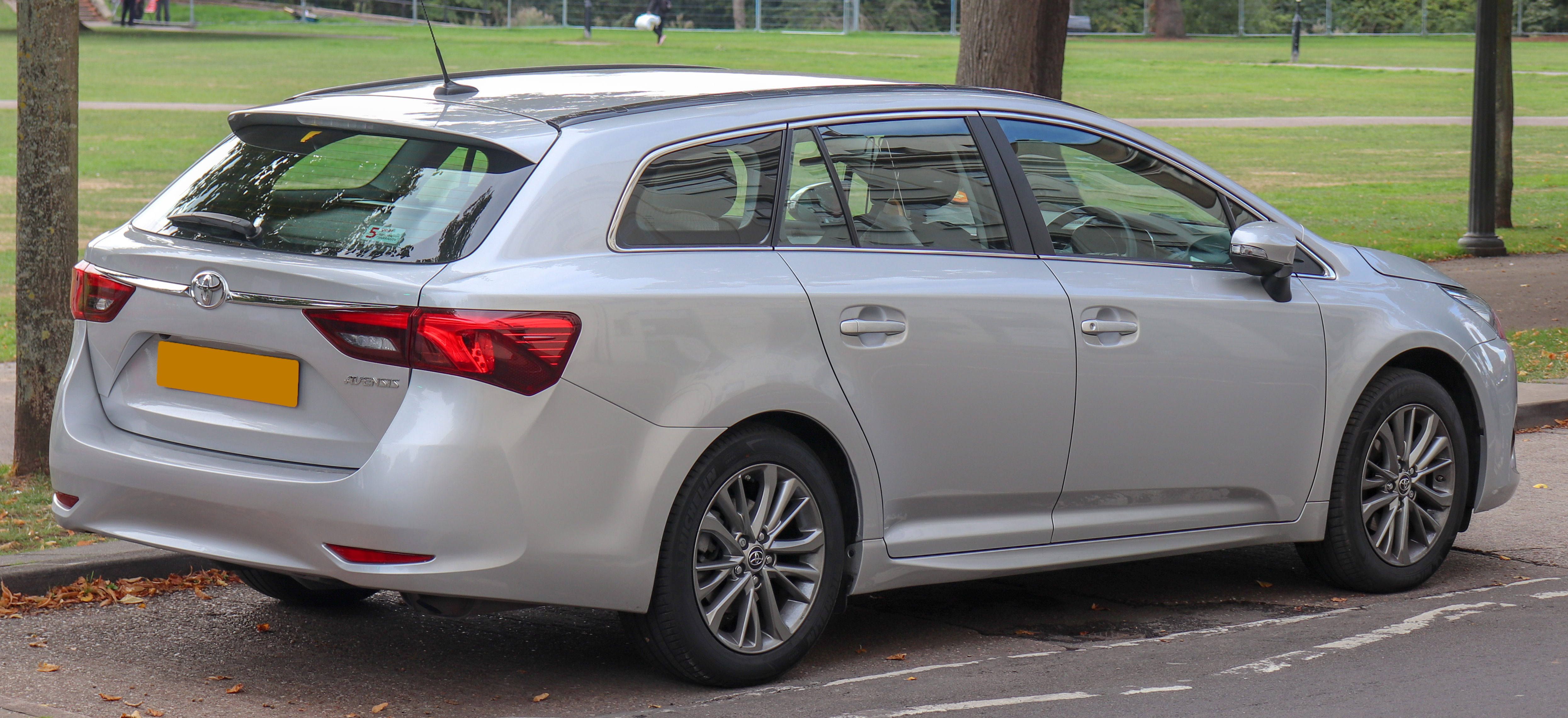 2018 Toyota Avensis Business Edition Valvematic facelift Estate 1.8 Rear Taken in Leamington Spa